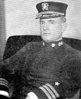 Moffett, William A., USN, Recipient of the Navy Medal of Honor